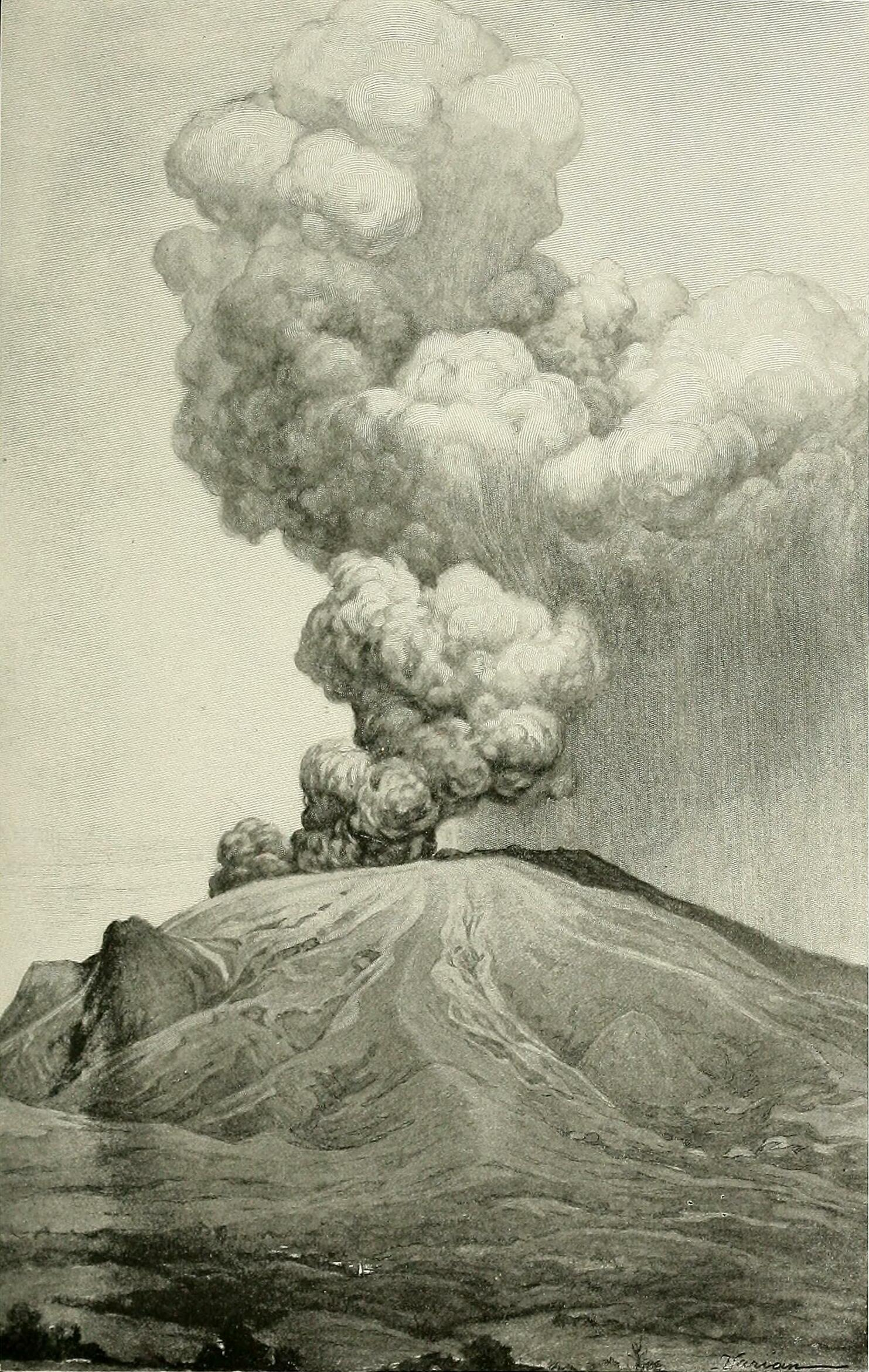 Title: The National geographic magazine Year: 1888 (1880s) Authors: National Geographic Society (U.S.) Subjects: Geography Publisher: Washington : National Geographic Society Text Appearing Before Image: it cra-ter, on the other hand, are more ener-getic than any that can without doubtbe referred to the pseudo-craters. Theminor eruptions from the summit cra-ter, however, may be due to preciselythe same immediate cause as the erup-tions of the pseudo-crater, namely, theaccess of surface water to highh heatedrocks, so that an apparent^ completesequence may be observed between theescape of steam from hot debris and thedischarges from true volcanic conduits.It is thus seen that the discovery of thecrucial test asked for is difficult, andthe final decision, if one is reached,must rest on a judicial balancing of allthe evidence and the weight to be givento the judgment of individual observers.An instructive fact furnished by thepseudo-crater (even when the largerand, as some persons may think, ques-tionable examples are not considered)which has a bearing on the theories ofthe ultimate causes of volcanic erup-tions, is the close similarity, and in factidentity, that exists between the explo- Text Appearing After Image: Mont Pelee from Vive, May 27 The great cloud of steam and smoke rose cauliflower shaped from the summit crater to a heightof from two to three miles. The descending shower of rain and ashes shows on the right Drawn by George Varian. Republished from McClures Magazine